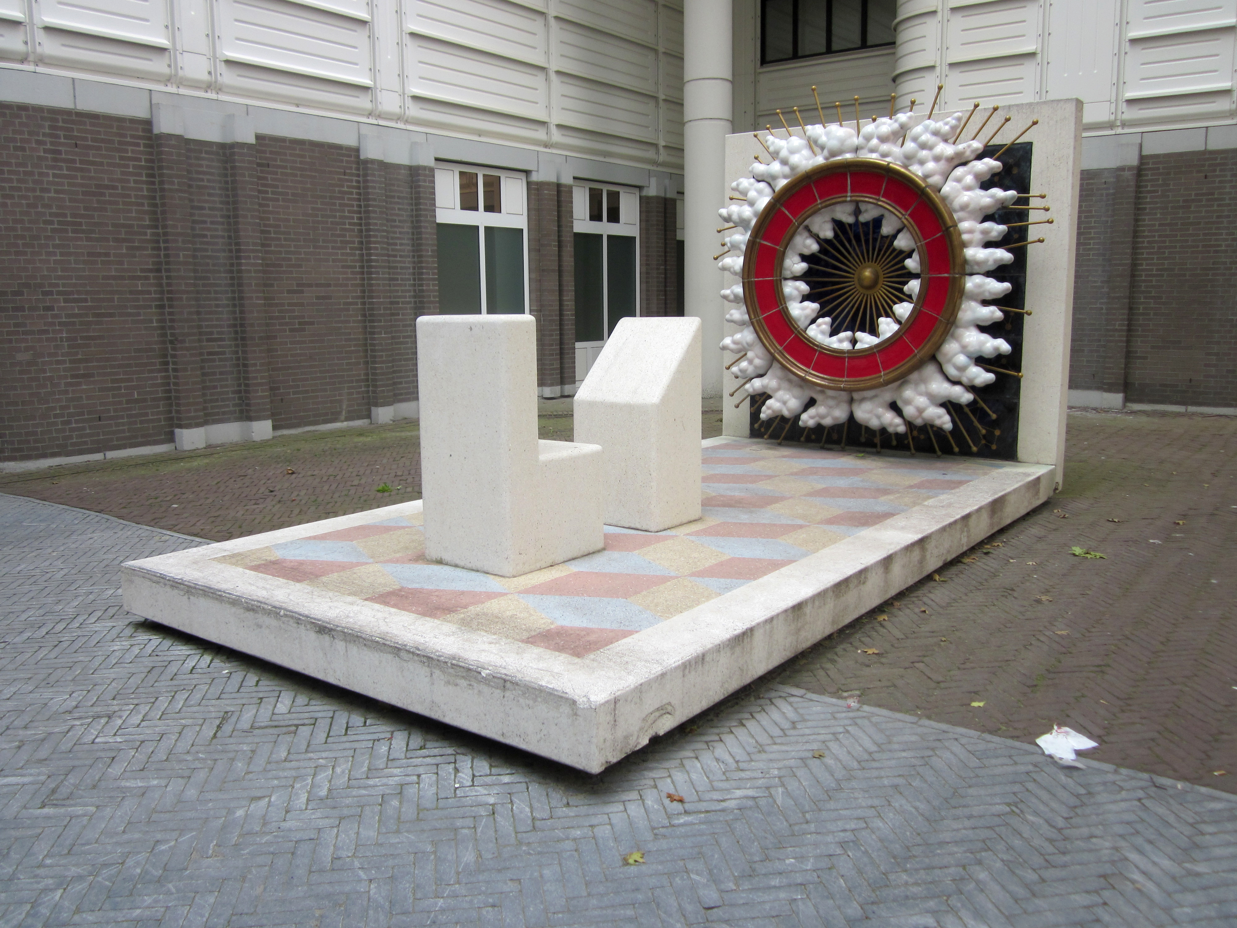 Cartoonesk sculpture at the Prins Willem-Alexanderhof/Prinses Irenepad in The Hague.